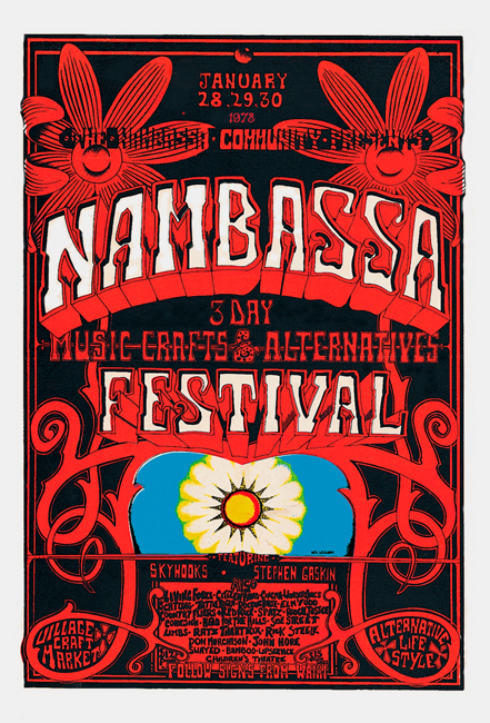 Nambassa_Festival_1978.jpg - Image (photograph) taken by Official Nambassa Photographer and uploaded by User:StoneHenge007, Nambassa dot com Terms of Use: 1/ All users of this image are required to attribute this work to "Nambassa Trust and Peter Terry" and the URL: " " is to accompany all use. 2/ Attribution. You must attribute the work in the manner specified by the author or licensor. 3/ For any reuse or distribution, you must make clear to others the license terms of this work. Statement by Nambassa Trust and Peter Terry